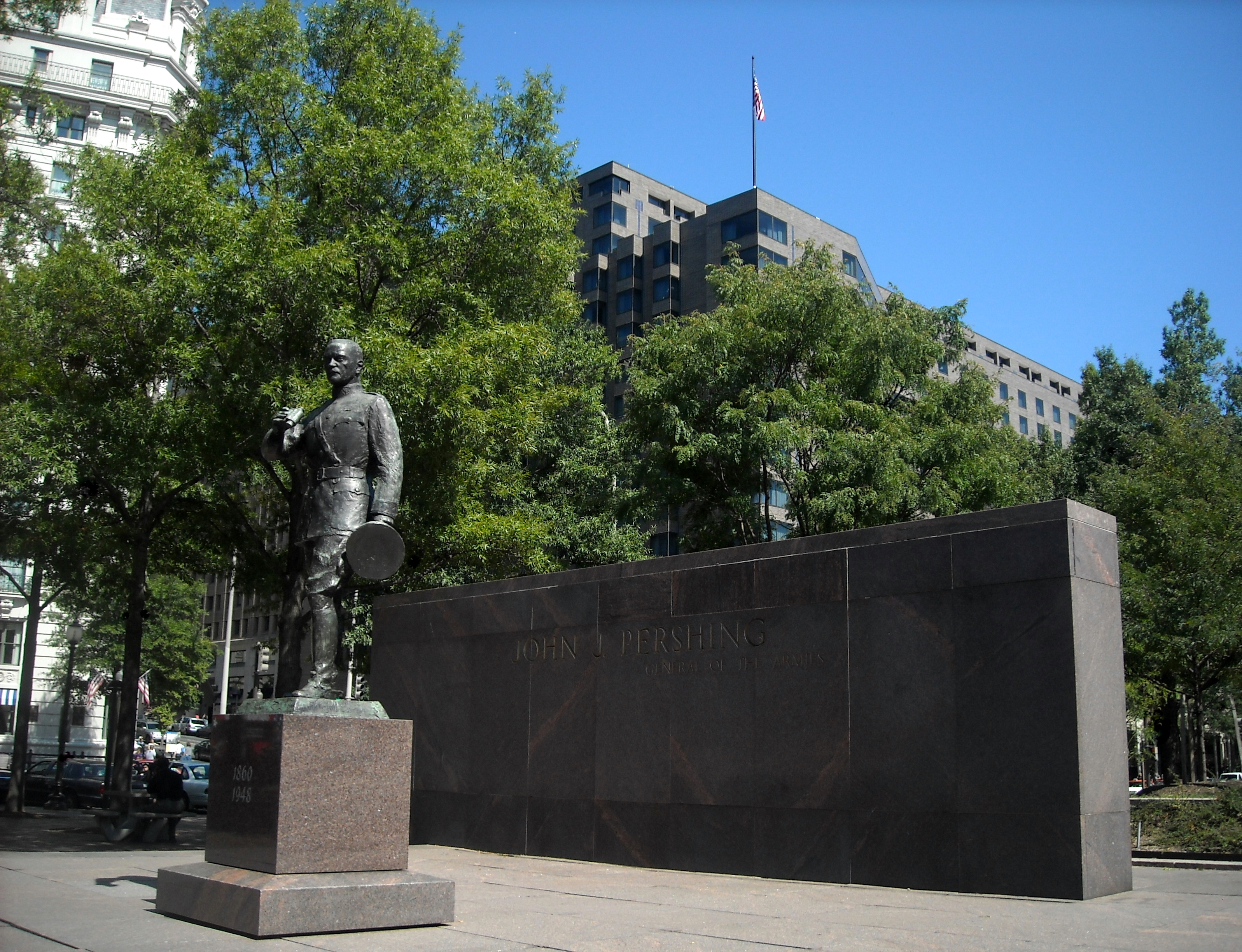 The John J. Pershing Memorial, located in Pershing Park, a small, urban park in downtown Washington, D.C., named in honor of John J. Pershing, the General of the Armies during World War I. Its central feature is the statue of General Pershing by Robert White.